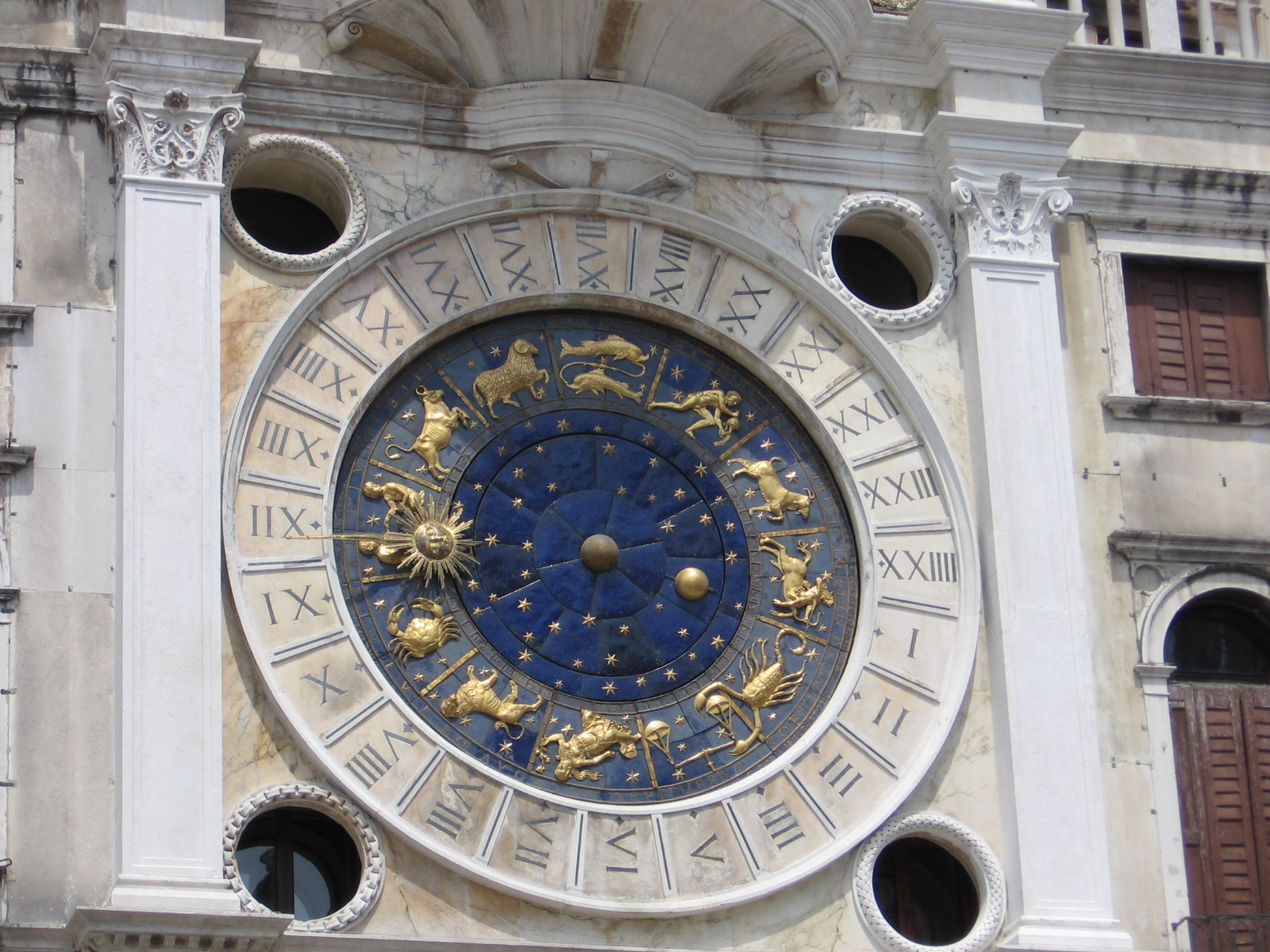 24 Hours zodiacal clock